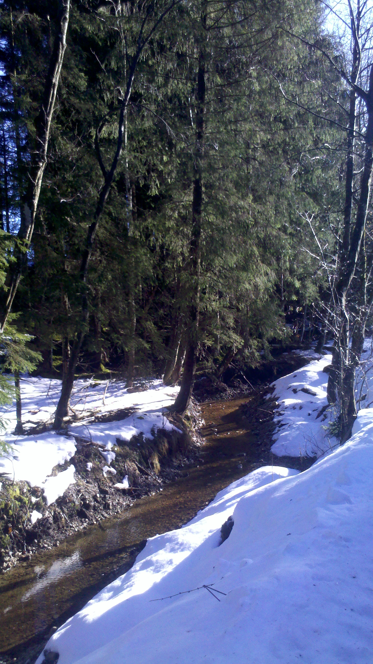 Murnerbach, Bavaria close to Baumköpflalm